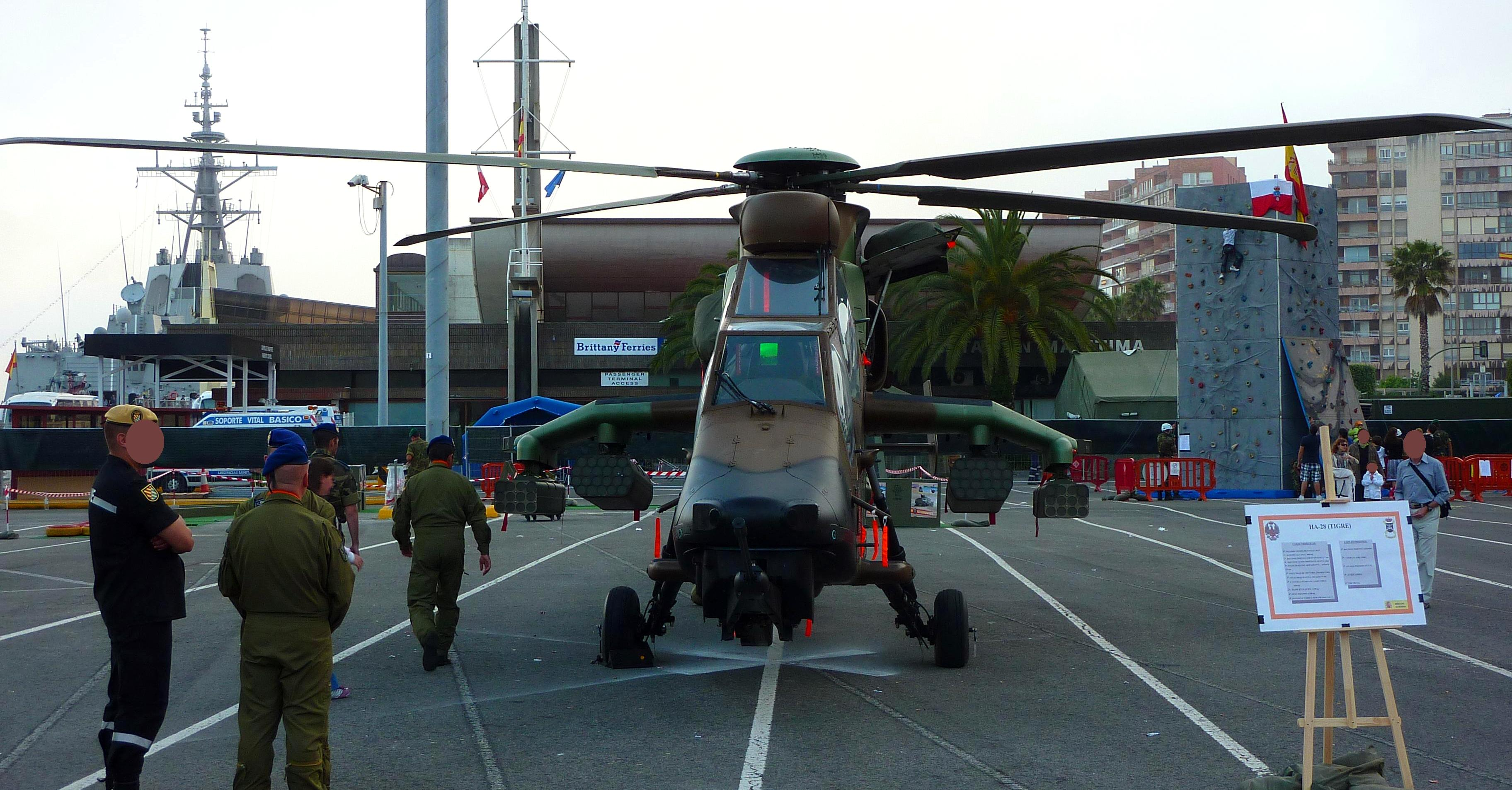 Eurocopter EC-665 Tigre HAP of the Spanish Army.